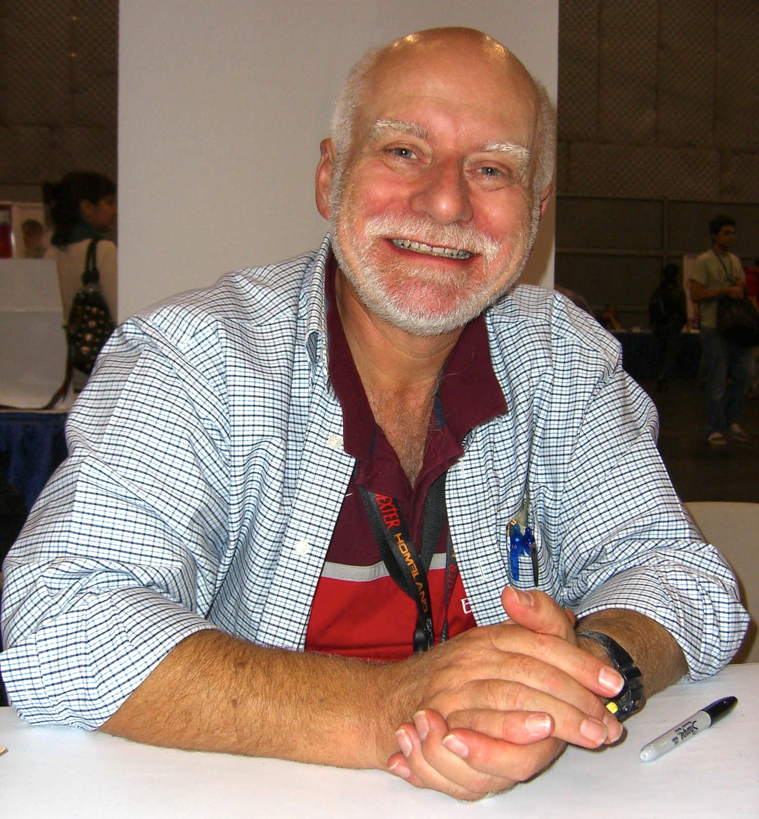 Comics creator and novelist Chris Claremont at the New York Comic Con, October 16, 2011. This photo was created by Luigi Novi. It is not in the public domain, and use of this file outside of the licensing terms is a copyright violation.